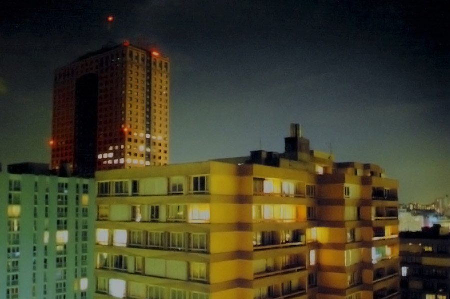 View (by night) out of an H.L.M. apartment (council flat).